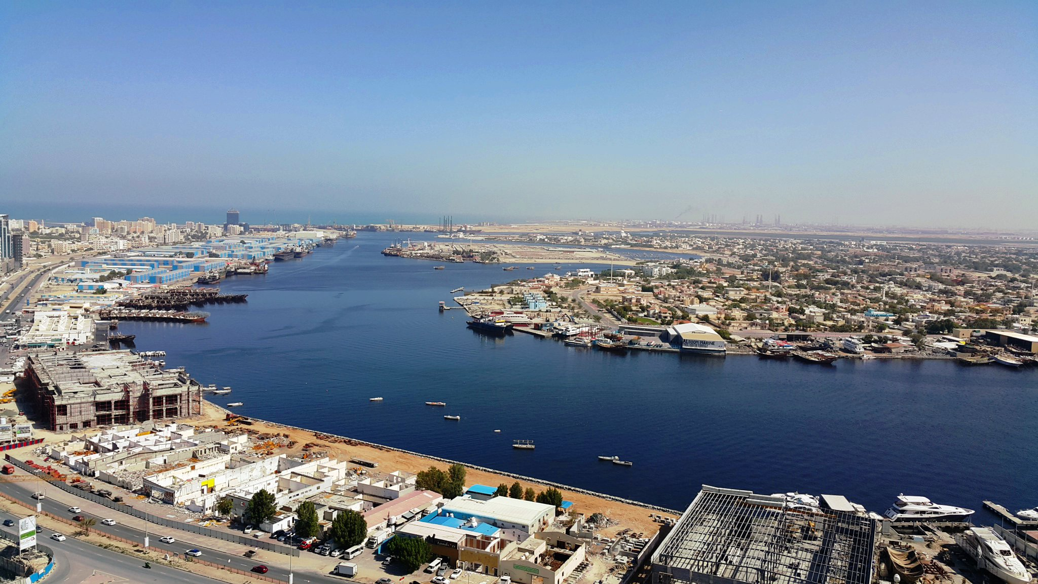 Al Rashidiya 1 - Ajman - United Arab Emirates